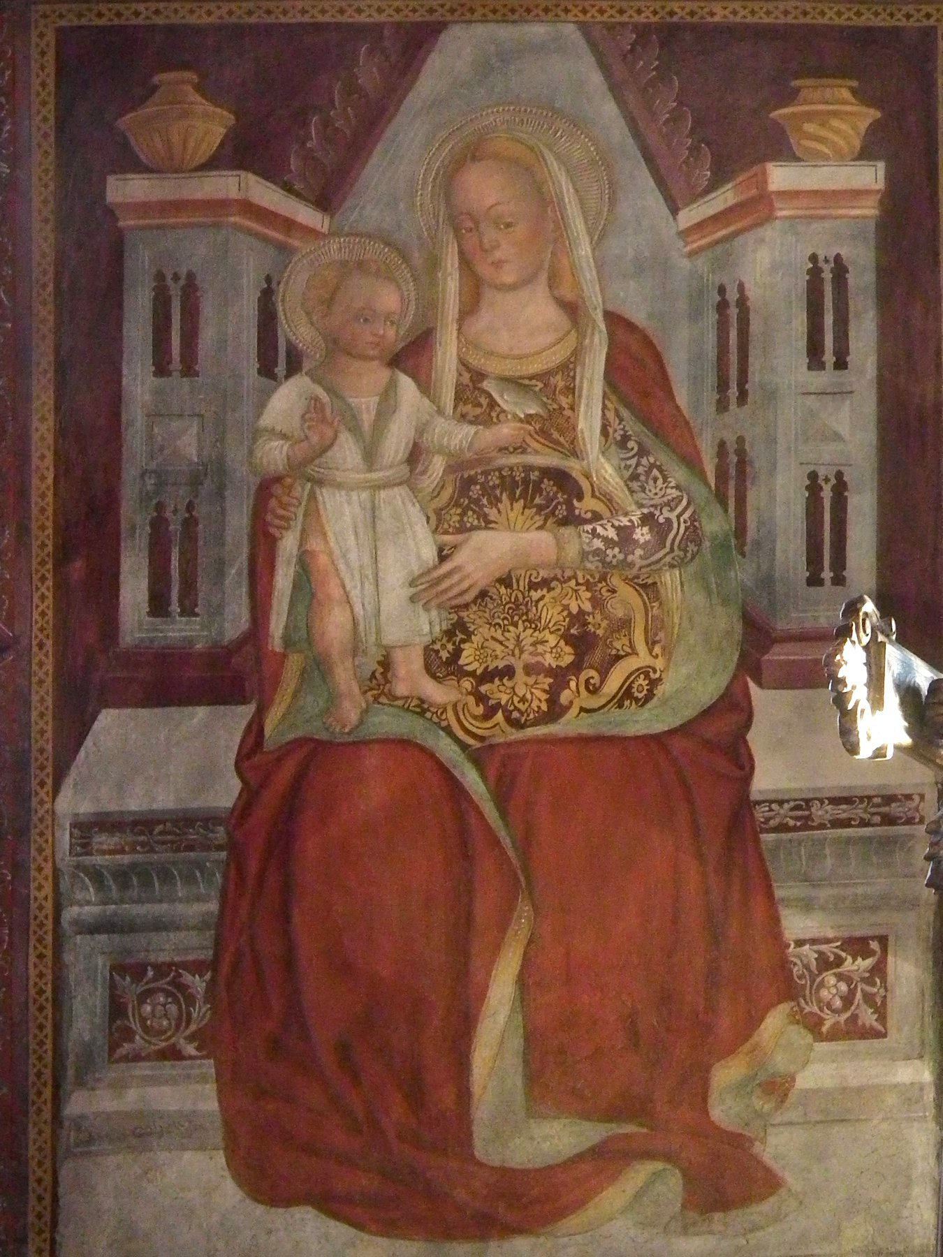 San Defendente (Clusone) Native nameSan Defendente (Clusone)LocationClusone, Lombardy, ItalyCoordinates45° 53′ 26.76″ N, 9° 57′ 16.39″ E